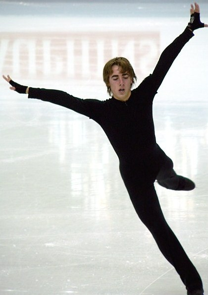 Paolo Bacchini at the 2005 European Figure Skating Championships